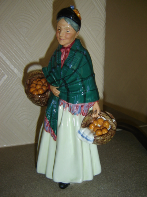 Royal Doulton Figurine, Orange Lady HN1953. Designed by Leslie Harradine, produced 1940-1975.